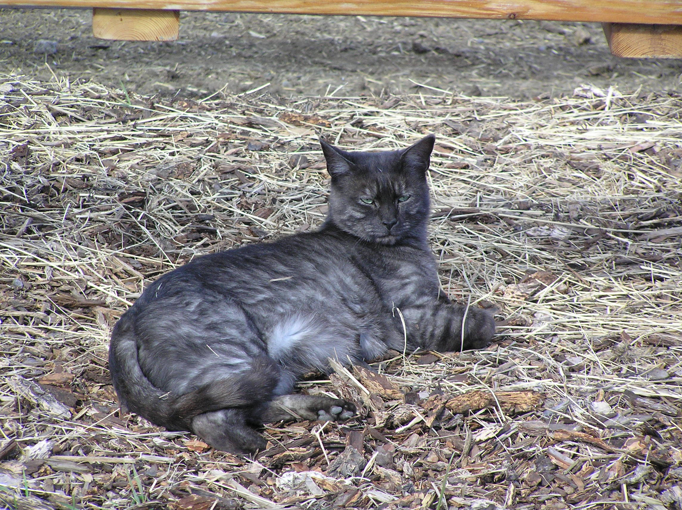 A domesticated barn cat, enjoying the outdoor life